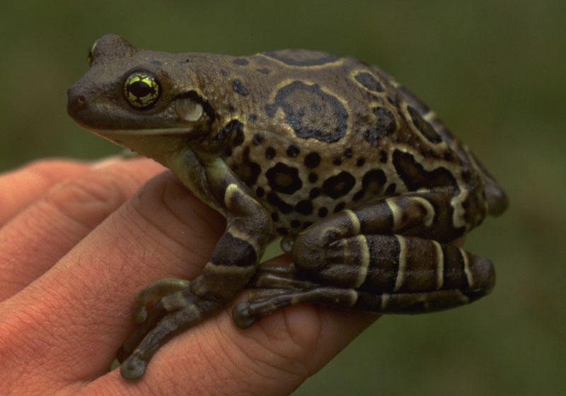 Trachycephalus dibernardoi